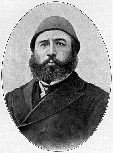 Portrait of Prince Mustafa Fazl Pasha (1830–1875), former heir apparent to the Egyptian throne.